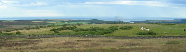 Garrison Hill, Raedykes Roman Camp, Kincardineshire